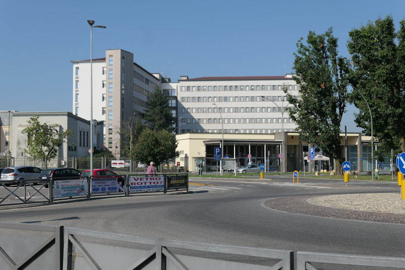 Crema (Italy), Ospedale (Hospital) Maggiore